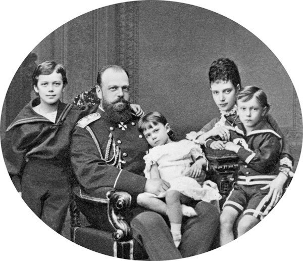 Tsar Alexander III with his wife and their three eldest children.